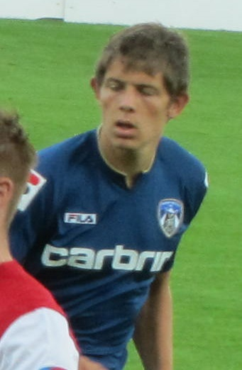 James Tarkowski.